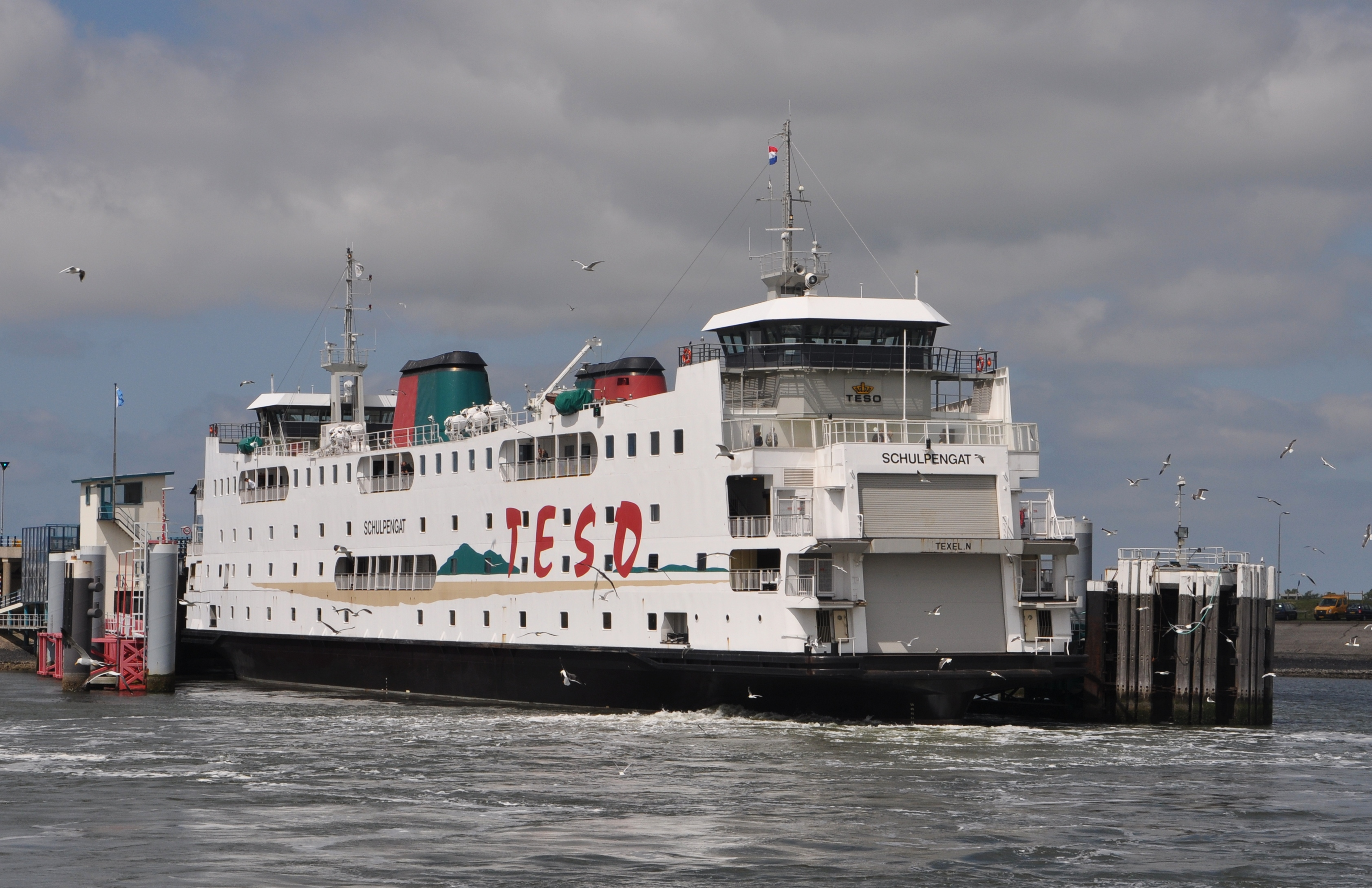 Ferry to the island of Texel